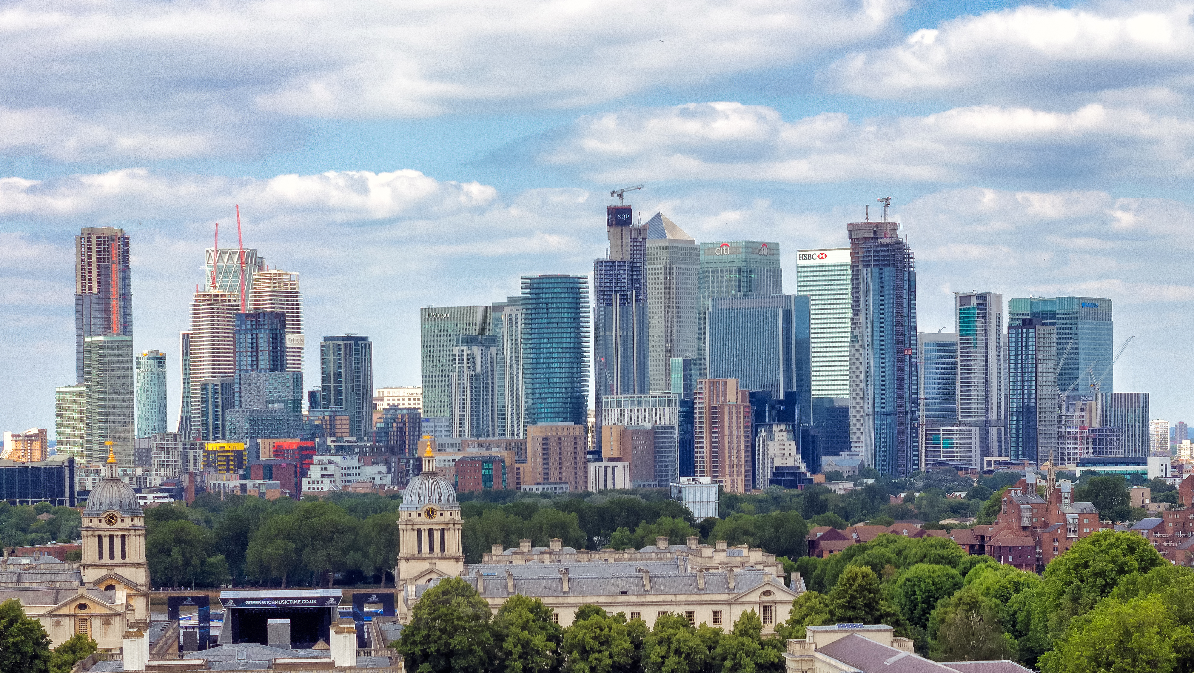 The Old Royal Naval College Greenwich with The City and East London background